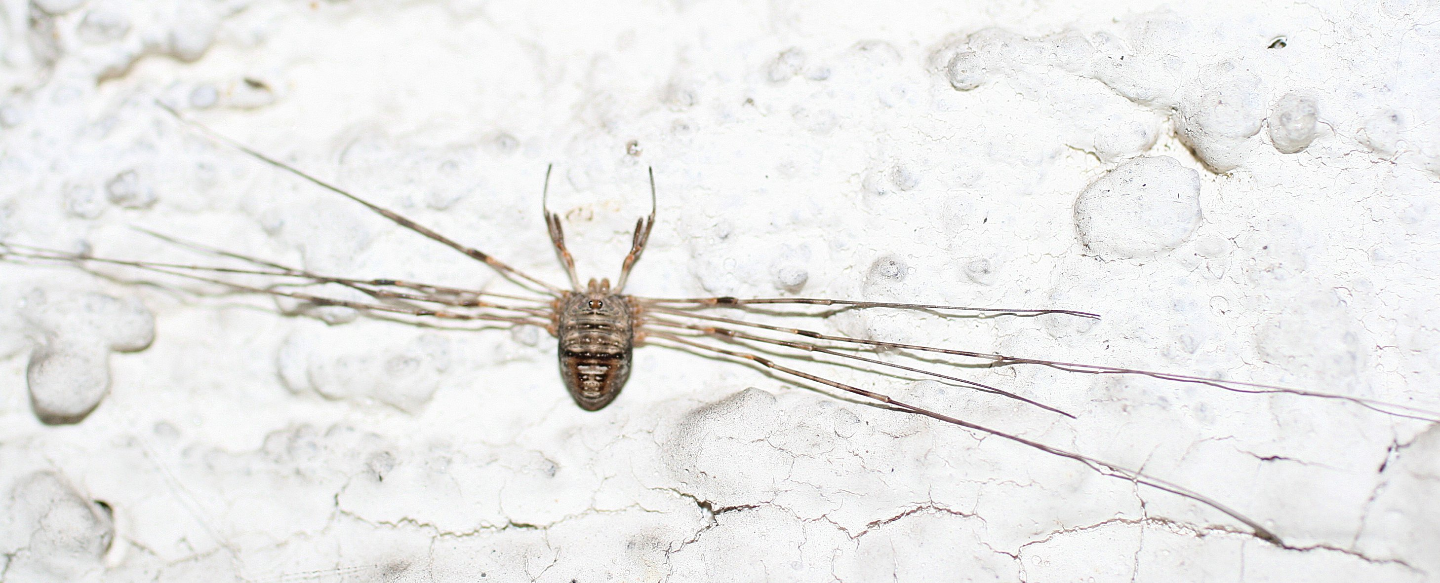 probably Dicranopalpus ramosus, from Leverkusen, Germany.